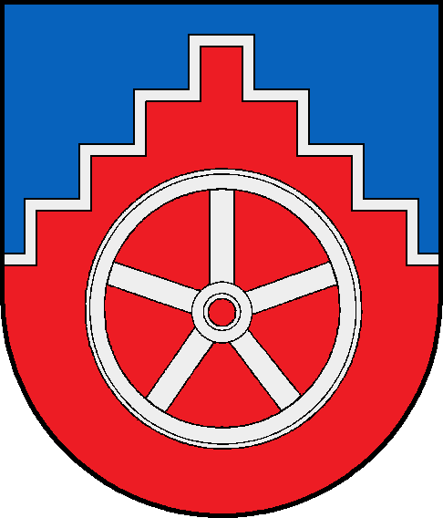 Coat of arms of the municipality Großbarkau in Schleswig-Holstein, Germany.